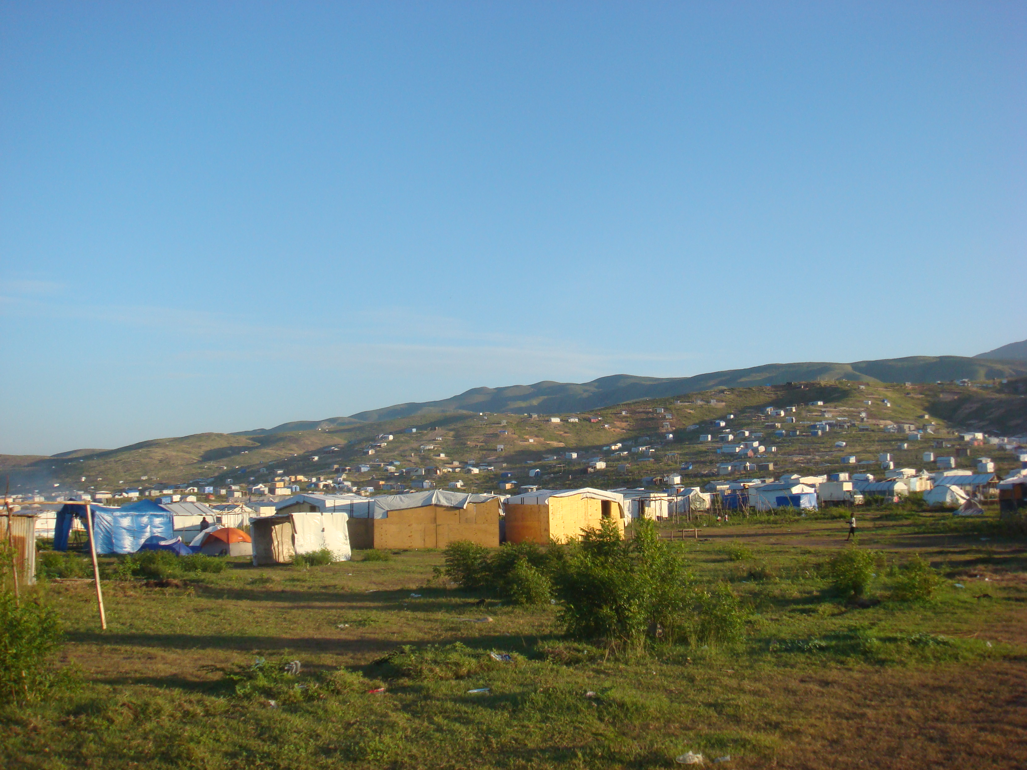 Picture of Canaan, Haiti Settlement